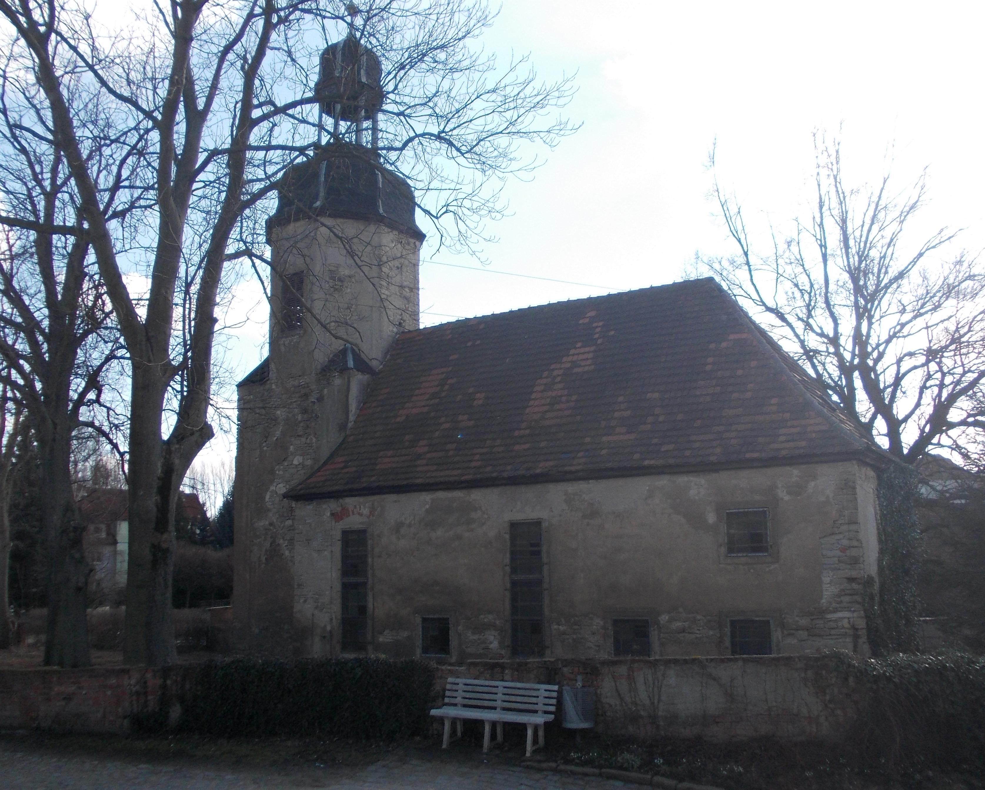 Naundorf church (Teuchern, district: Burgenlandkreis, Saxony-Anhalt)